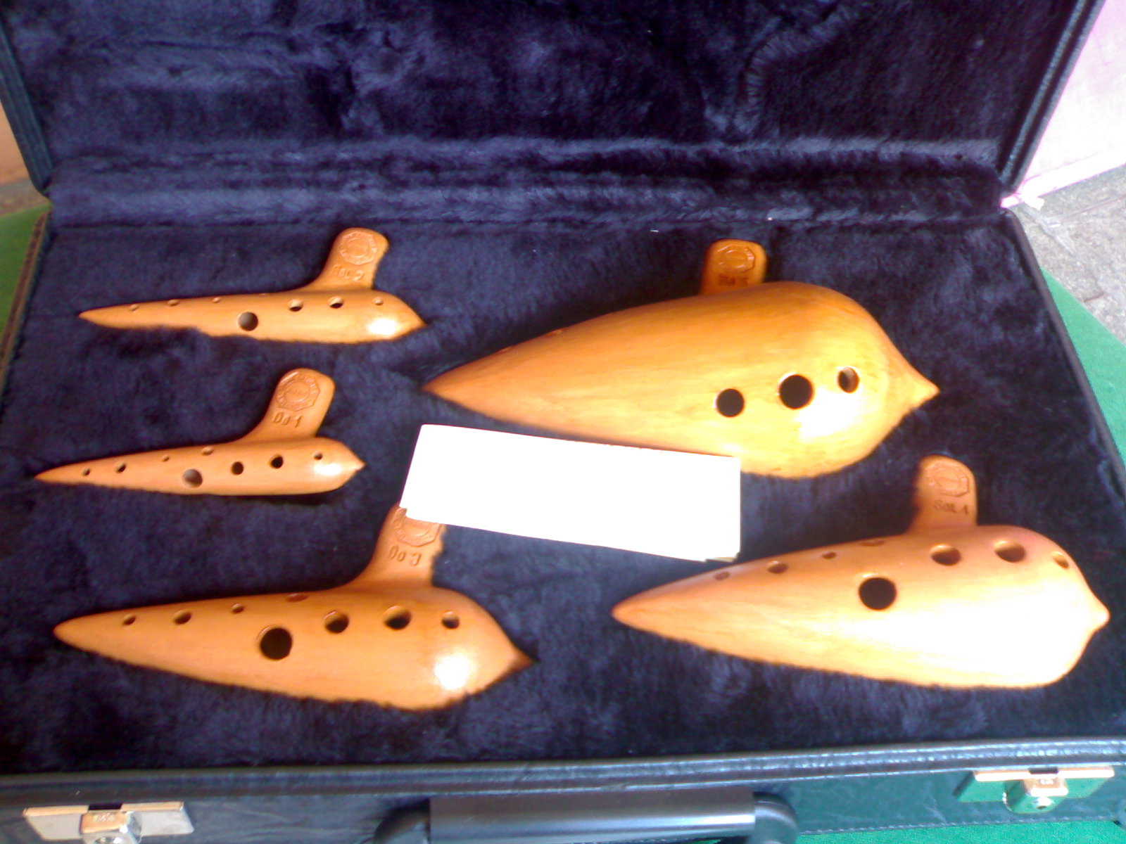 Set of concert "Ocarina di Budrio" ocarinafolkfestival 2009